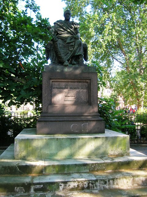 Charles James Fox statue, Bloomsbury Square WC1 Taken from Great Russell Street WC1. Charles James Fox (1749-1806)